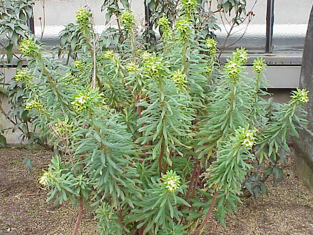 Species: Euphorbia characias wulfenii Family: Euphorbiaceae Image No. 3